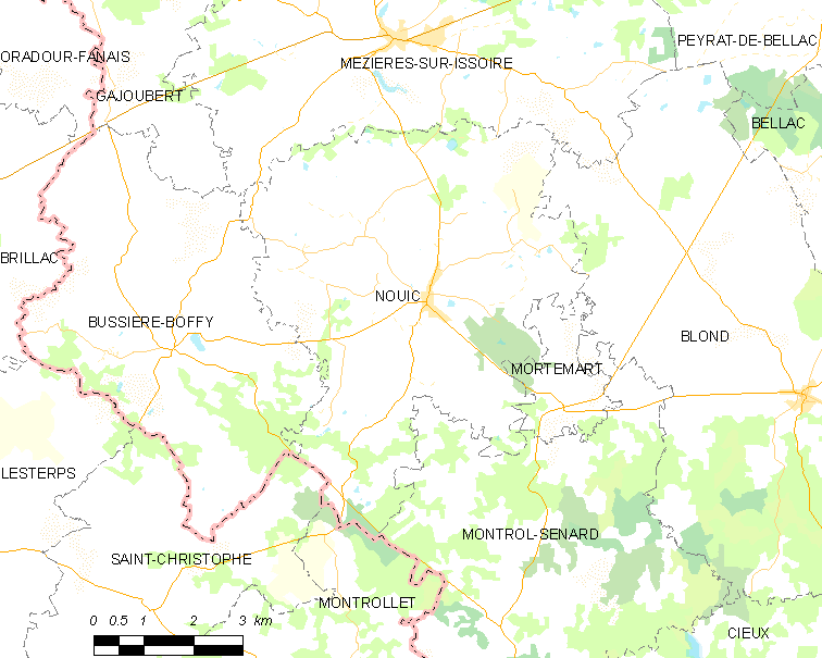 Map of French municipality Nouic